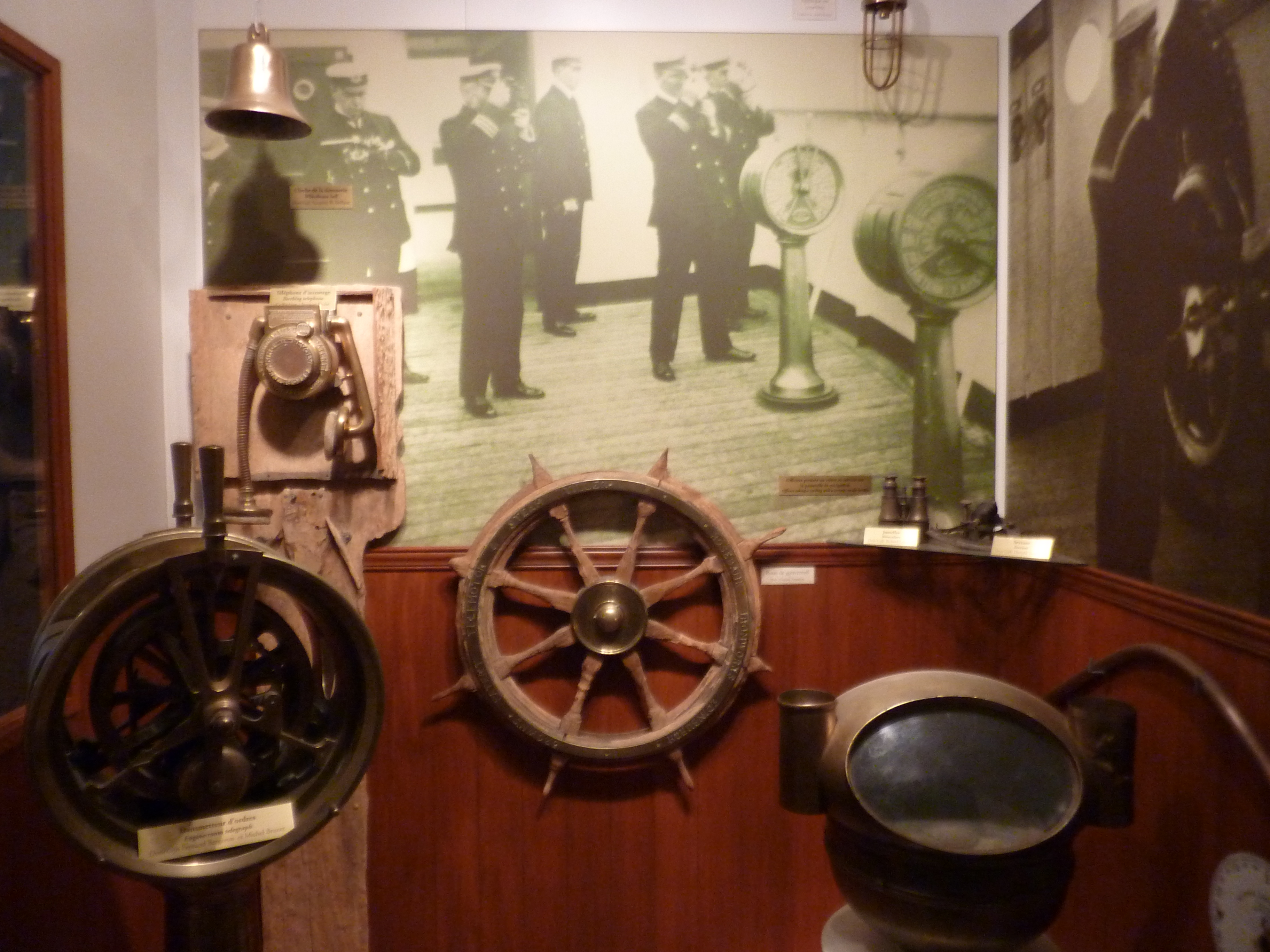 Artefacts from the sunken ship Empress of Ireland from the exhibition at the Site Historique Maritime de la Pointe-au-Père, Rimouski, Québec, Canada, september 2012.